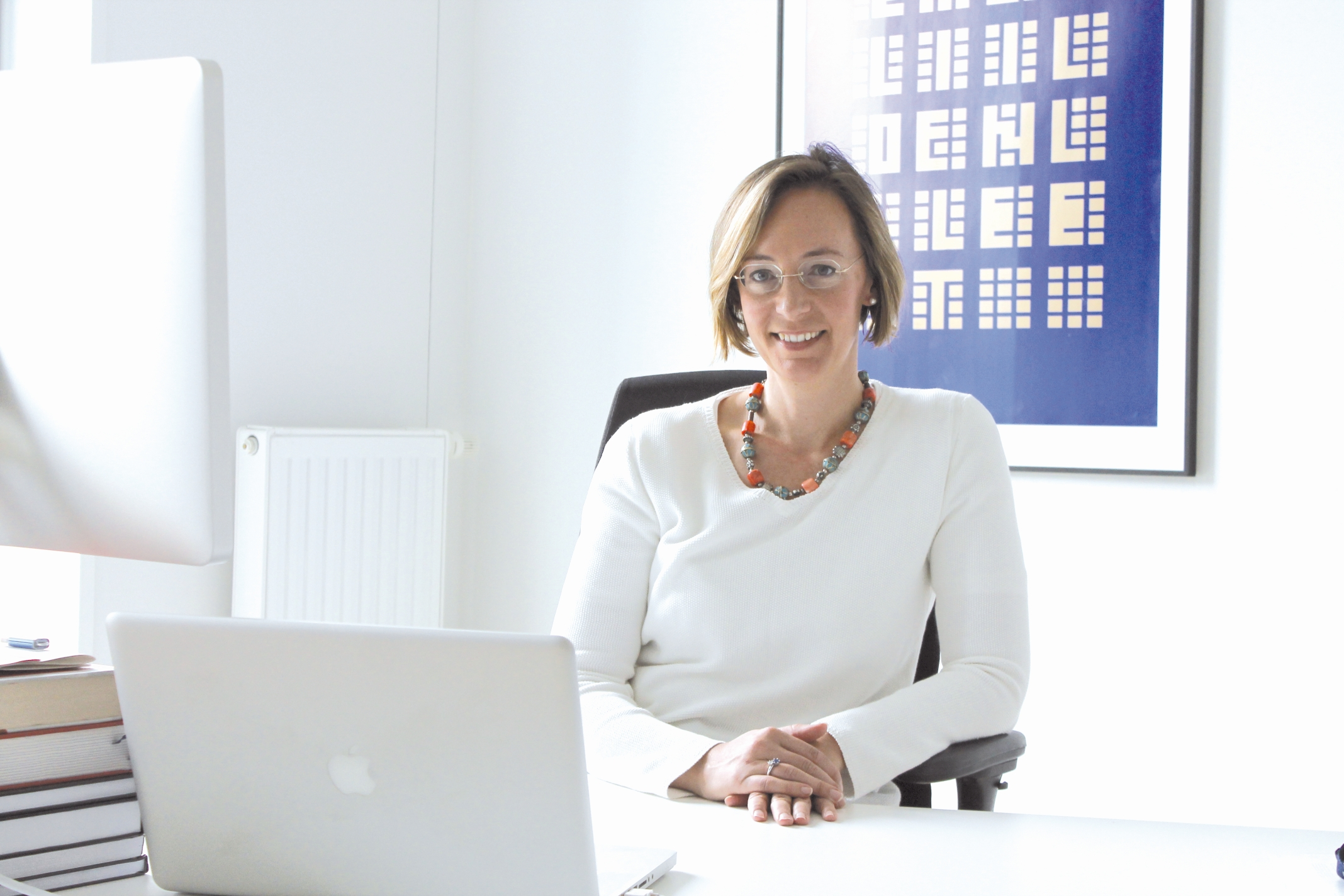 this is a photo of Sarah Spiekermann